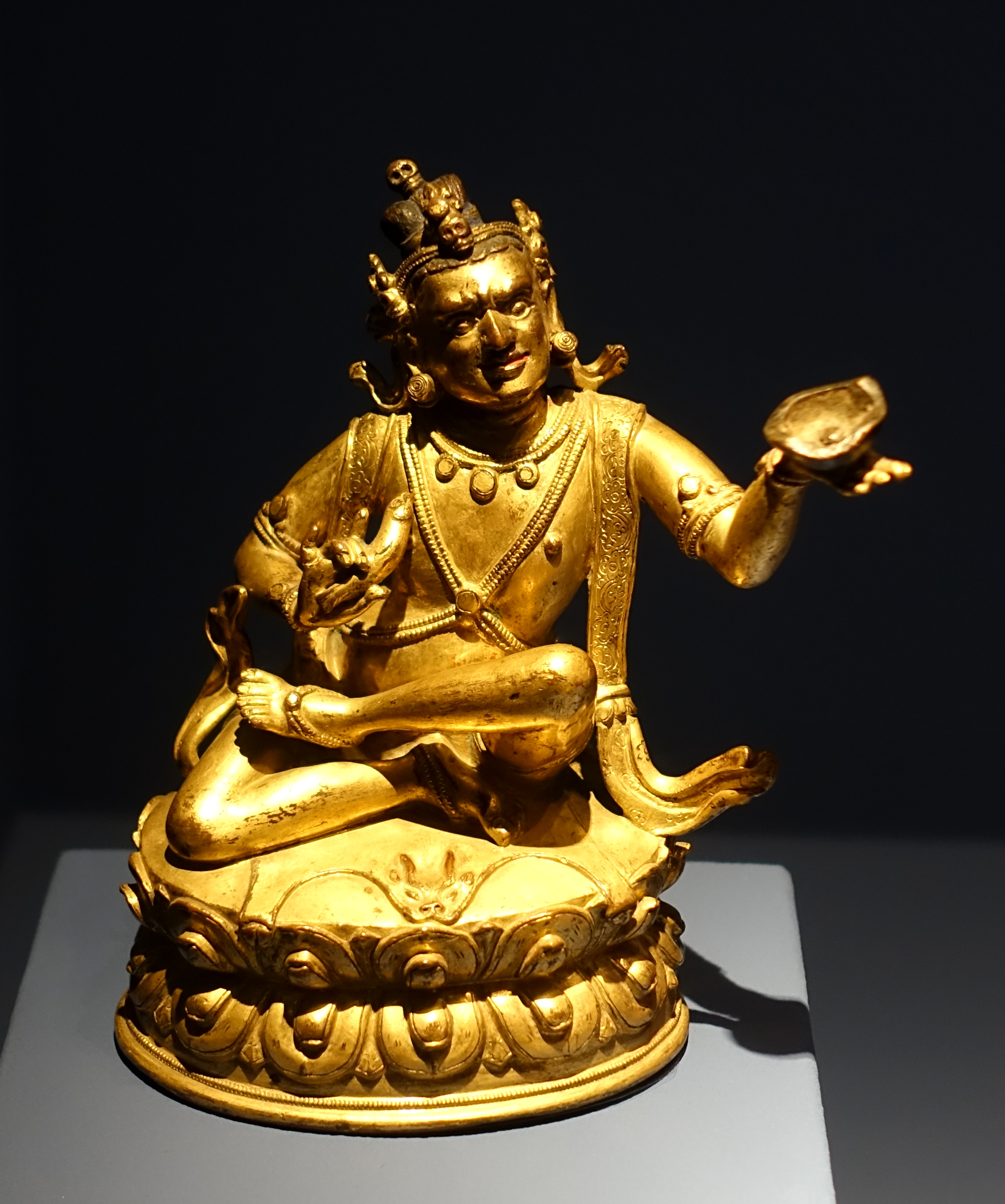 Exhibit in the Linden-Museum - Stuttgart, Germany.